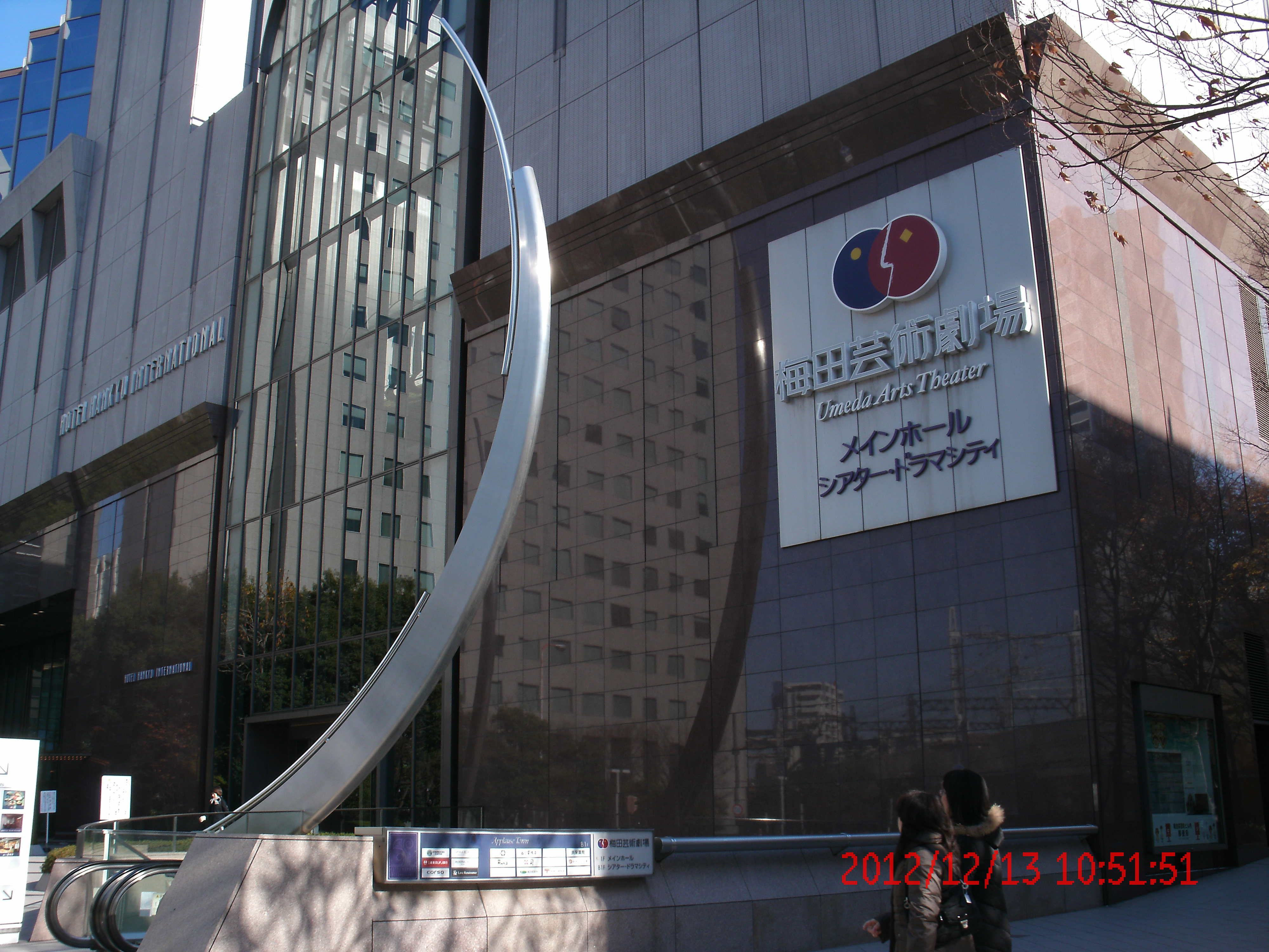 Umeda musical theater